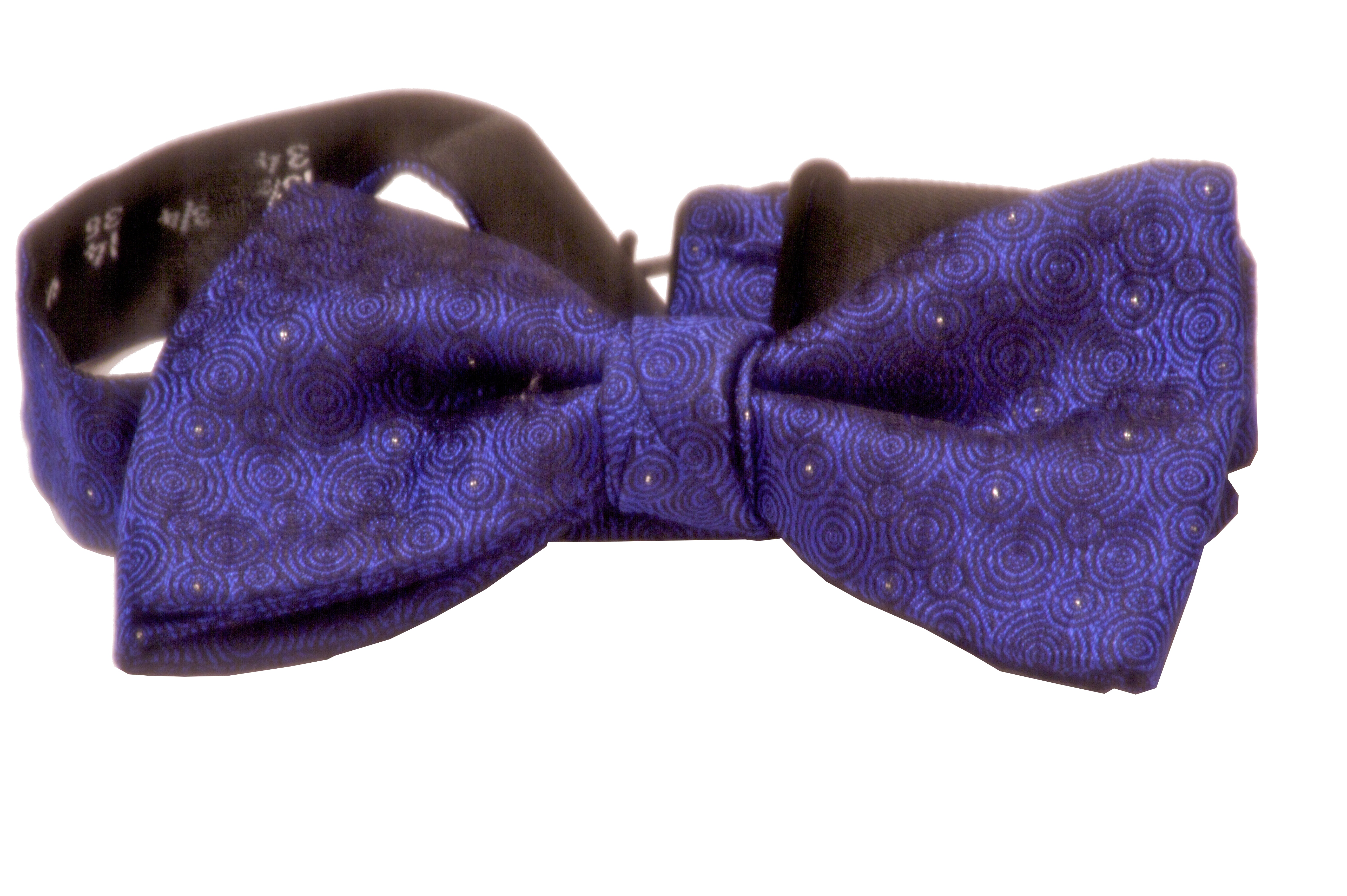 A blue bow tie.